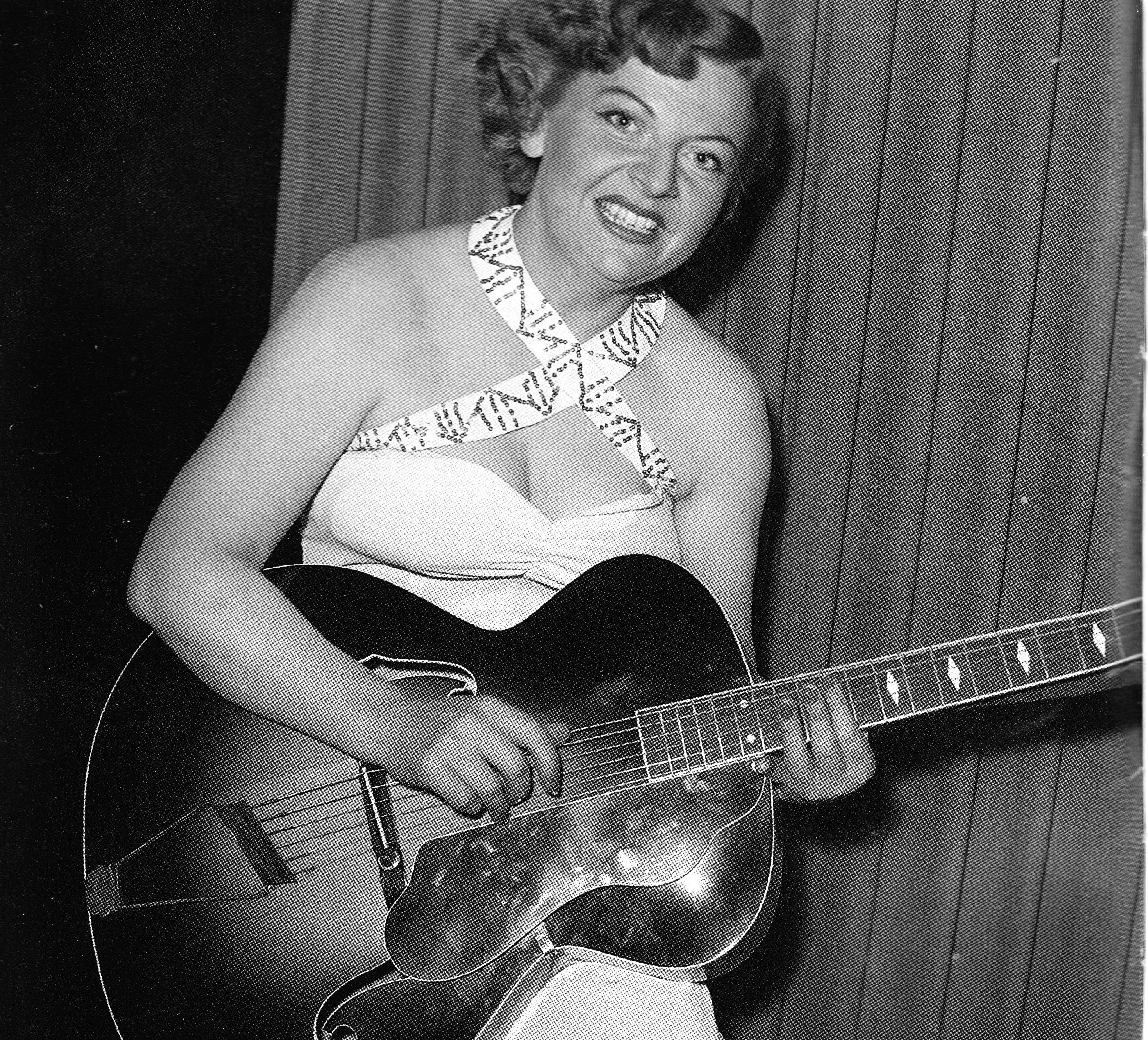 Maire Ojonen